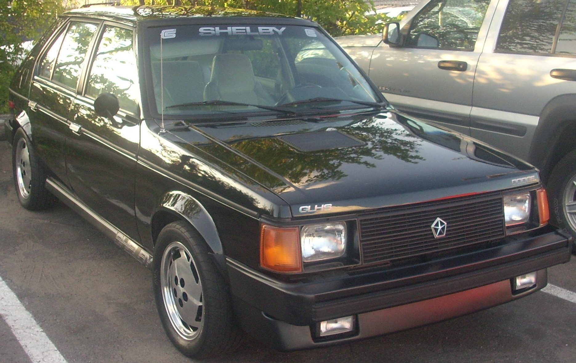 1986 Shelby GLHS photographed in Montreal, Quebec, Canada at Gibeau Orange Julep.